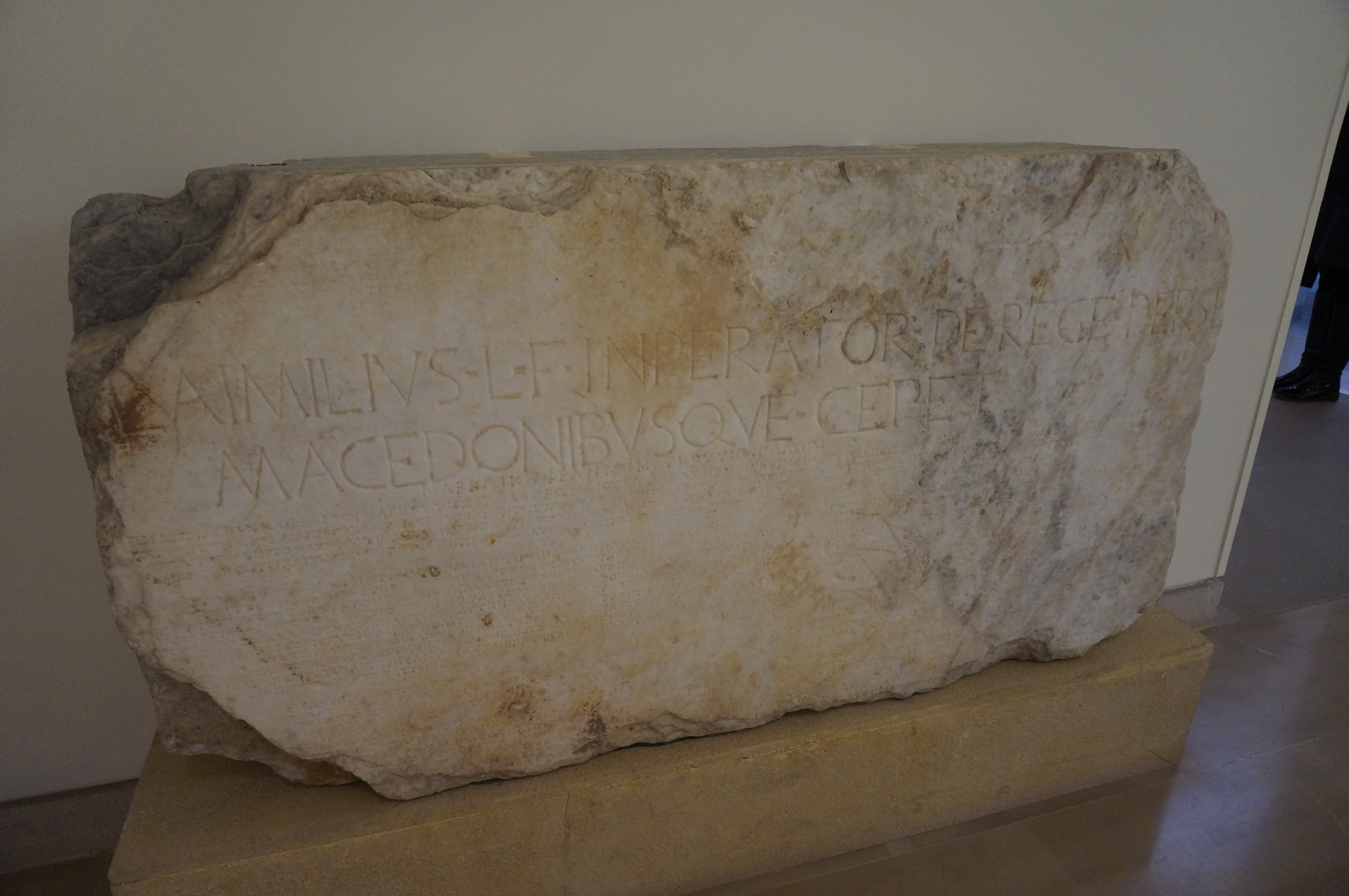 Inscription of Aemilius Paulus at Delphi (CIL I2 622), following the battle of Pydna, reading: L(ucius) Aimilius L(uci) f(ilius) inperator de rege Perse / Macedonibusque cepet (Lucius Aemelius, son of Lucius, Imperator, took this from King Perseus and the Macedonians). Surrounded by proxeny inscription of Marcus Caphranius (FD III 4:44).